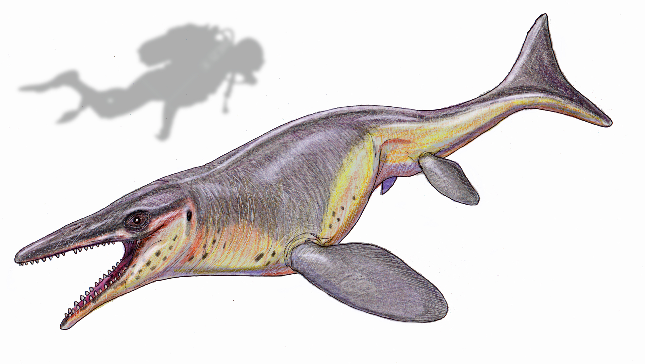 Reconstruction of Plesiotylosaurus crassidens, Late Cretaceous Mosasaur from California